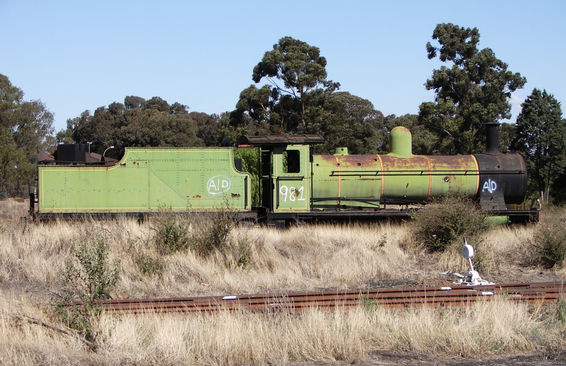 SAR Class 7 no. 981 with a Type ZE tender, staged at Bloemfontein